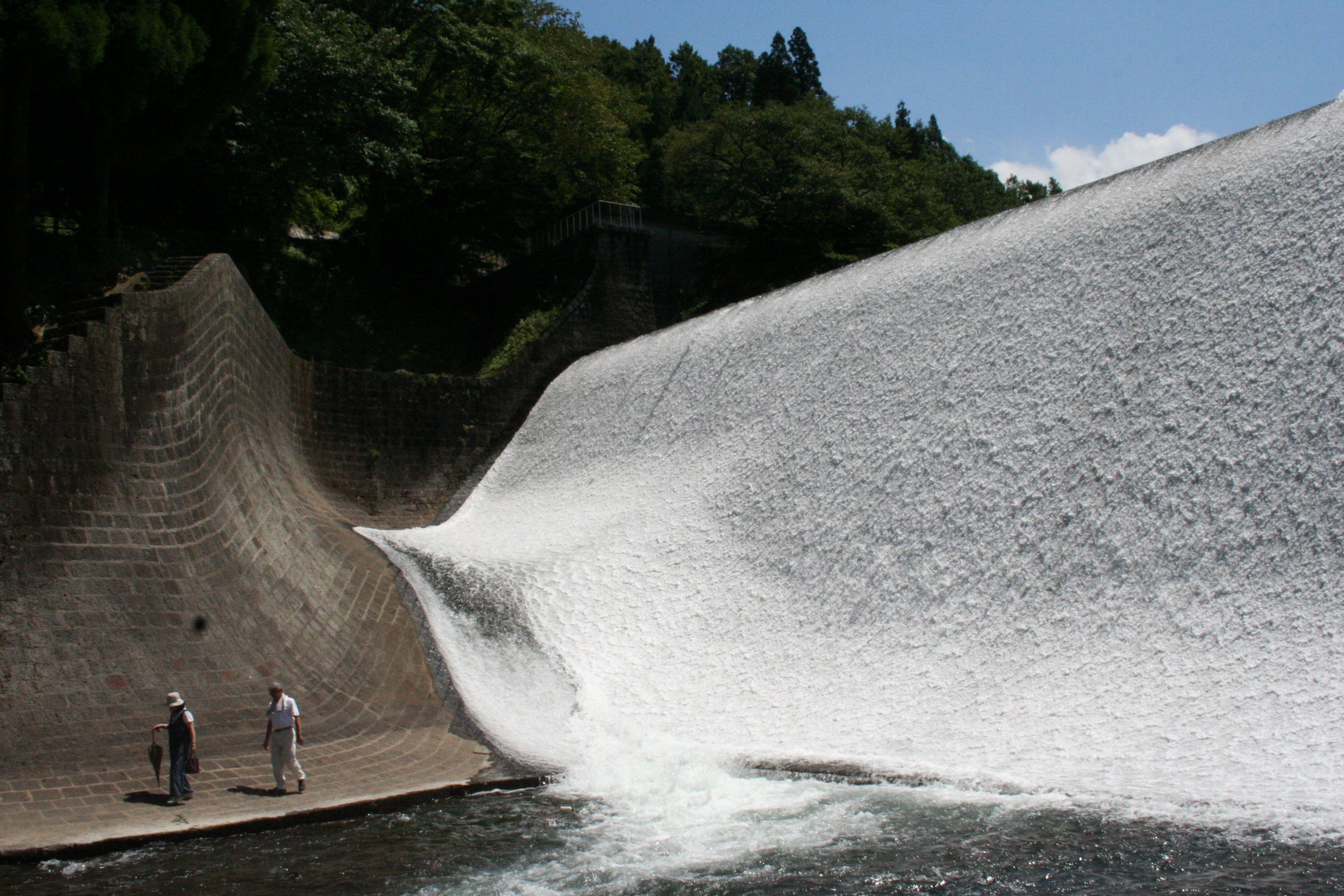 Description: Hakusui Dam(1938) right bank. Taketa-city, Oita Prefecture, Japapn. Important Cultural Property (Civil Engineering) of Japan. 白水溜池堰堤(1938竣工)の右岸曲面。大分県竹田市。国の重要文化財。 Source: self-made Date=2007/08/17 Photographer: Tsutsui Mizuki